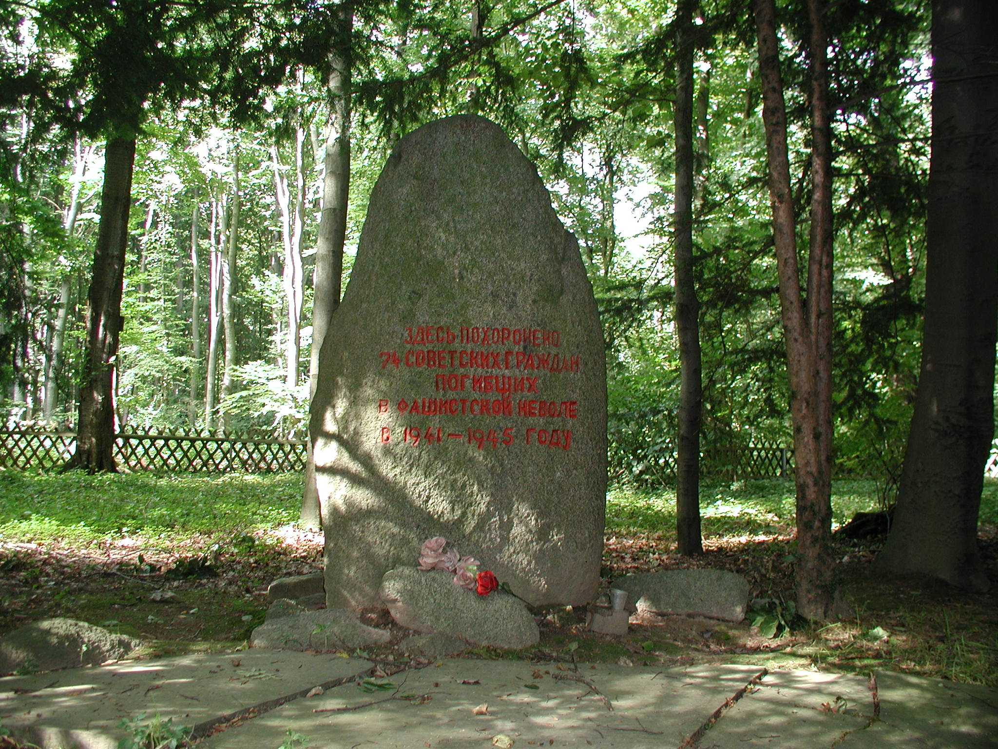 Cologne, memorial "Gremberger Wäldchen"